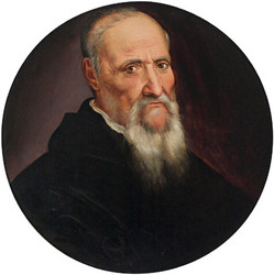 Probably self-portrait